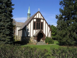 St. Luke's Episcopal Church, Katonah, NY, USA - exterior